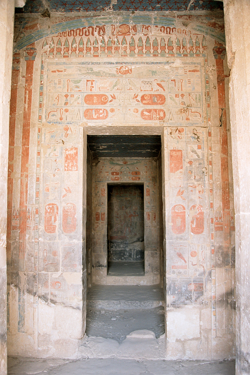 A view to a sanctuary chamber on the upper platform of the Temple of Hatshepsut, Luxor's west bank, Egypt.